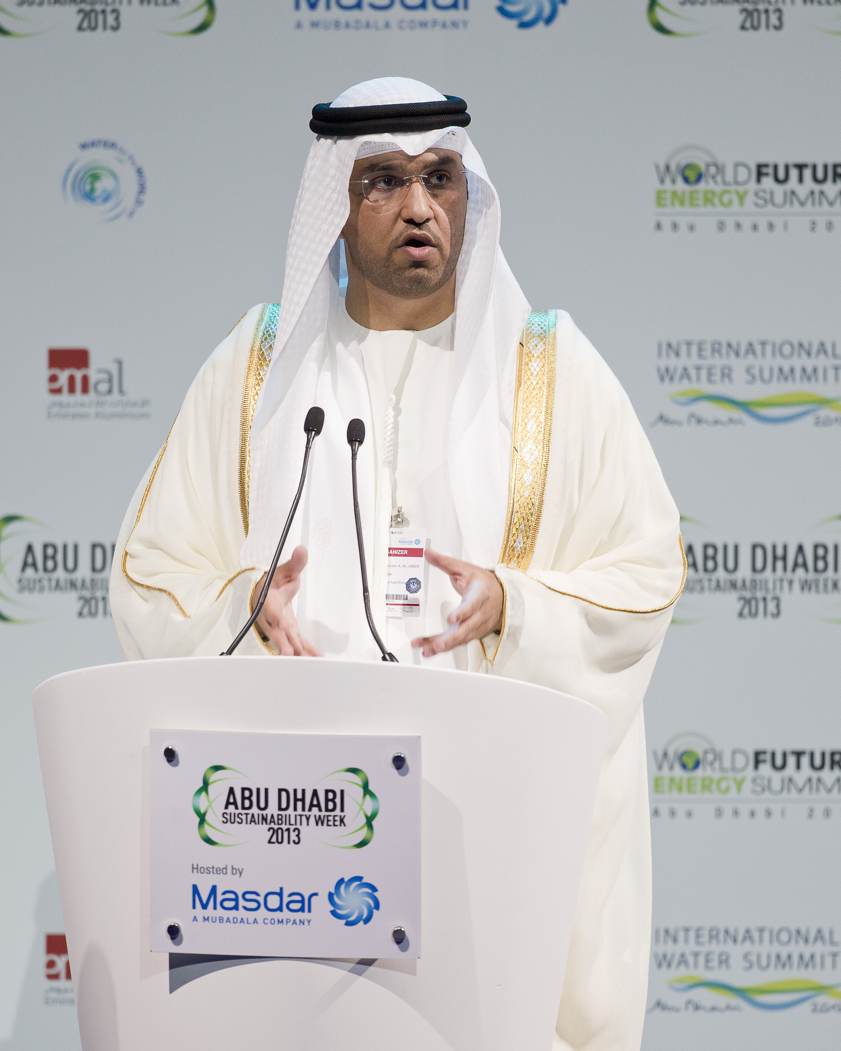 Dr Sultan Ahmed Al Jaber CEO of Masdar and Chairman of the Abu Dhabi Ports Company (ADPC), gives a welcoming speech at the Opening Ceremony of World Future Energy Summit, part of Abu Dhabi Sustainability Week 2013, at the Abu Dhabi National Exhibition Centre